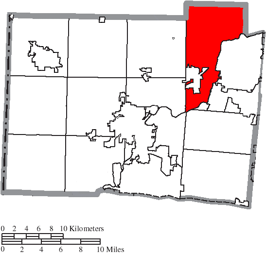 Map of the municipal and township boundaries of Butler County, Ohio, United States, as of the 2000 census, with the location of Madison Township highlighted. Township borders are shown only in unincorporated areas in order to differentiate incorporated and unincorporated areas more clearly.